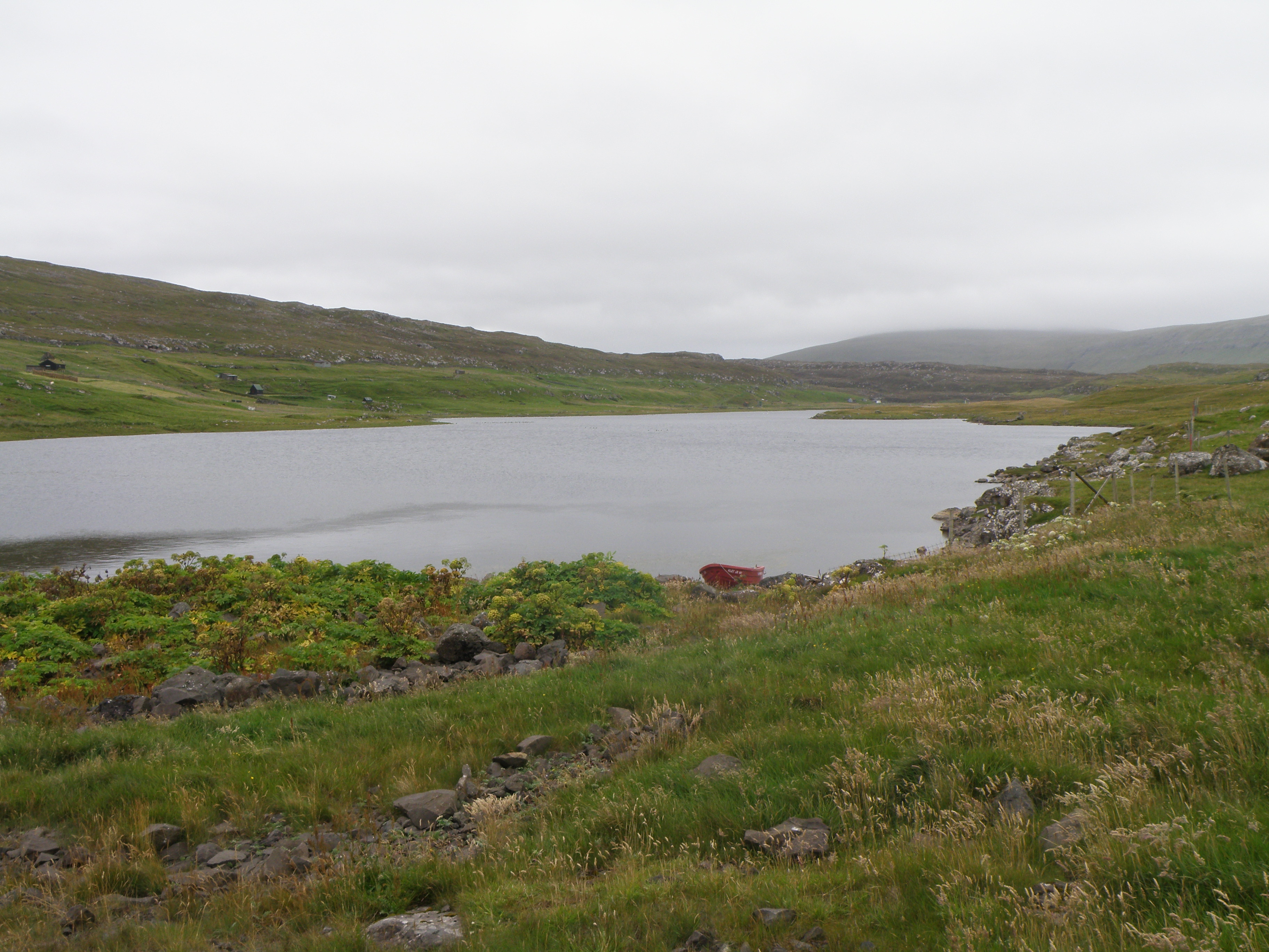 Gróthúsvatn is a lake in the Faroe Islands, on the island Sandoy. It is located in Grótvík, which is on the south coast, just west of the main village of Sandoy, Sandur. Gróthúsvatn is 0,2 sq. km. It is one of top ten of the largest lakes of the Faroe Islands. The largest lake is Sørvágsvatn/Leitisvatn on Vágar island, Sandsvatn on Sandoy island is the third largest. A road passes by this lake, it connects Søltuvík with Sandur village. Søltuvík is not inhabited. Føroyskt: Gróthúsvatn er eitt vatn á Sandoynni, beint vestanfyri Sandsbygd. Vatnið er í Grótvík. Ein vegur fer beint framvið Gróthúsvatnið, vegurin førir frá Sandi til Søltuvíkar.